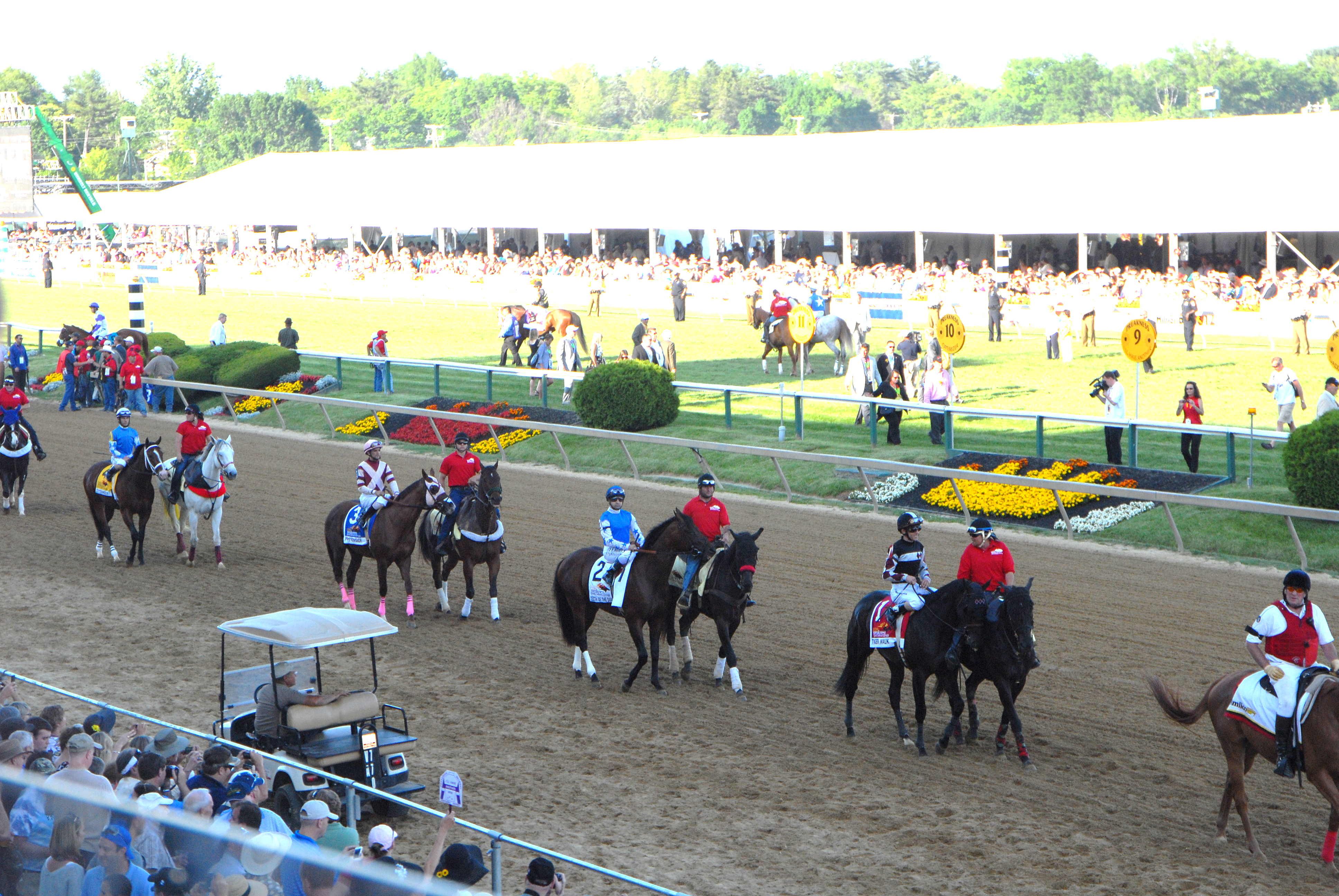 Parade to start of 2012 Preakness Stakes. Horses Tiger Walk (#1, red blanket), Teeth of the Dog, Pretension and Zetterholm are visible in front. Race winner I'll Have Another is at far left near striped pole and #10 and #11 Optimizer and Cozzetti are in the background.